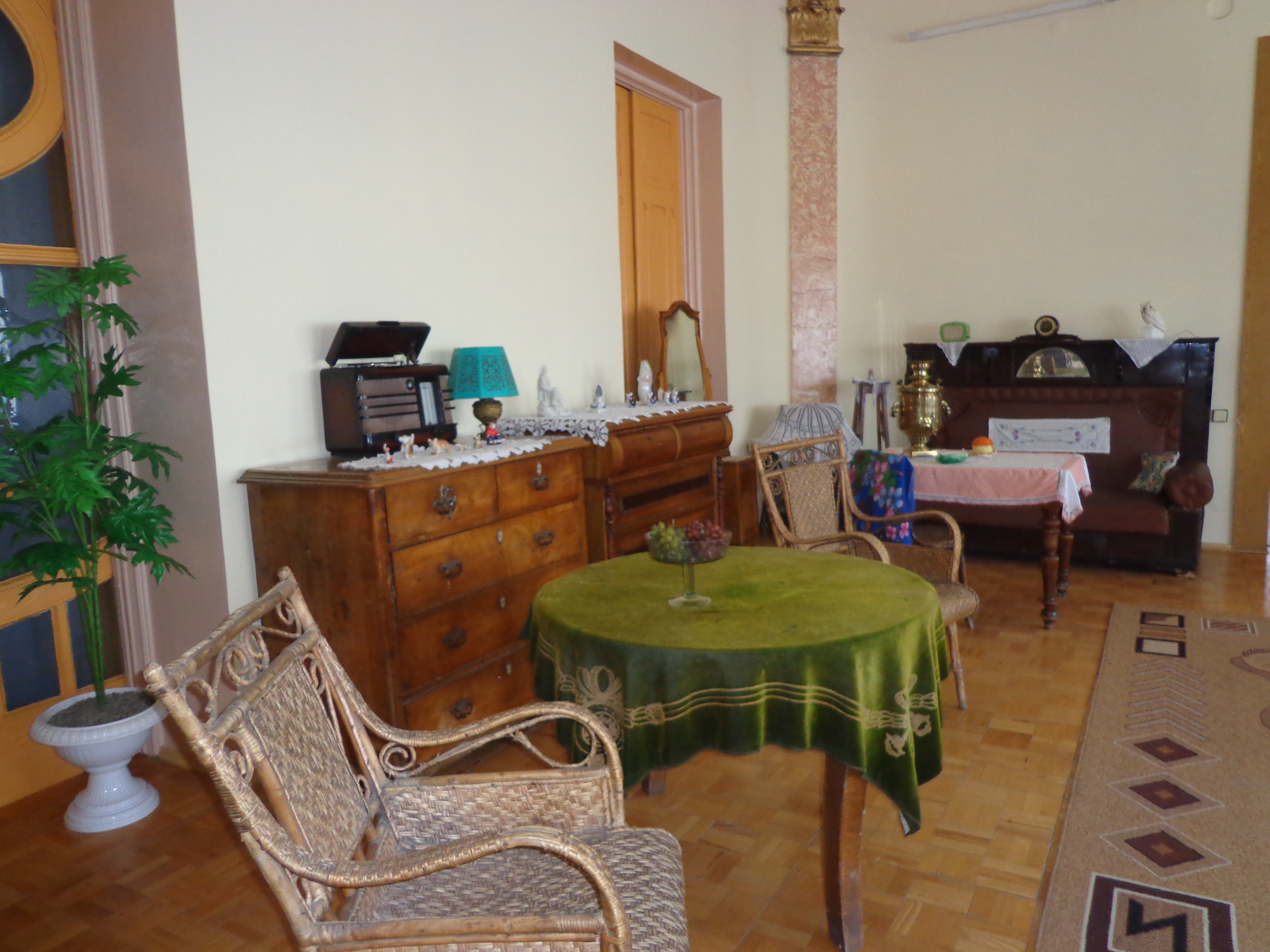 Furniture of early 20th century in Melitopol Museum, Melitopol, Ukraine